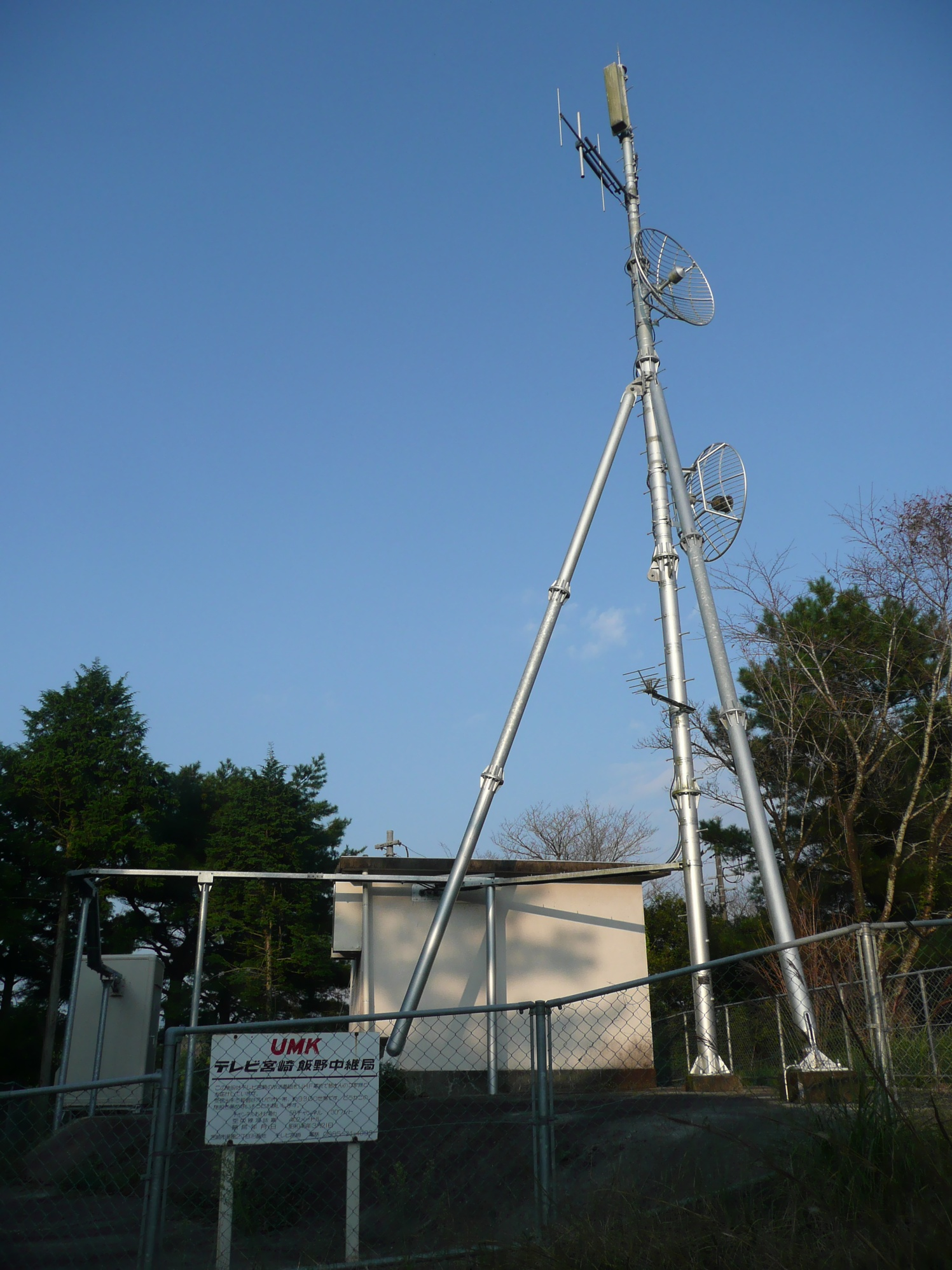 JODI-(D)TV (Miyazaki Telecasting Co., Ltd. - UMK) Iino Repeater (Ebino City, Miyazaki, Japan)